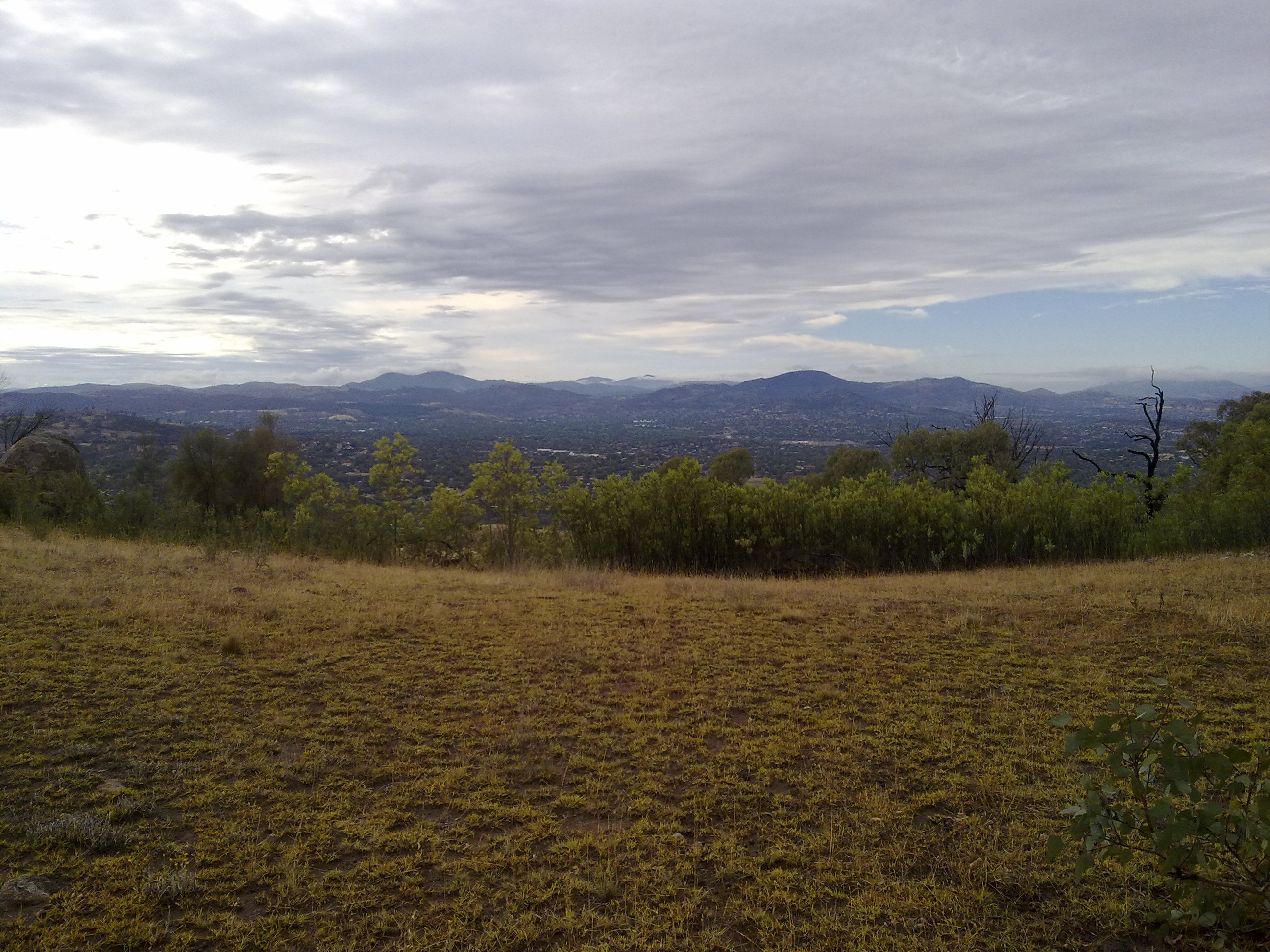 Looking toward Kambah and Wanniassa from Mount Taylor in the Australian Capital Territory (ACT).